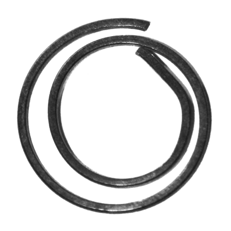 Image of a normal-round-standard-paper-clip.